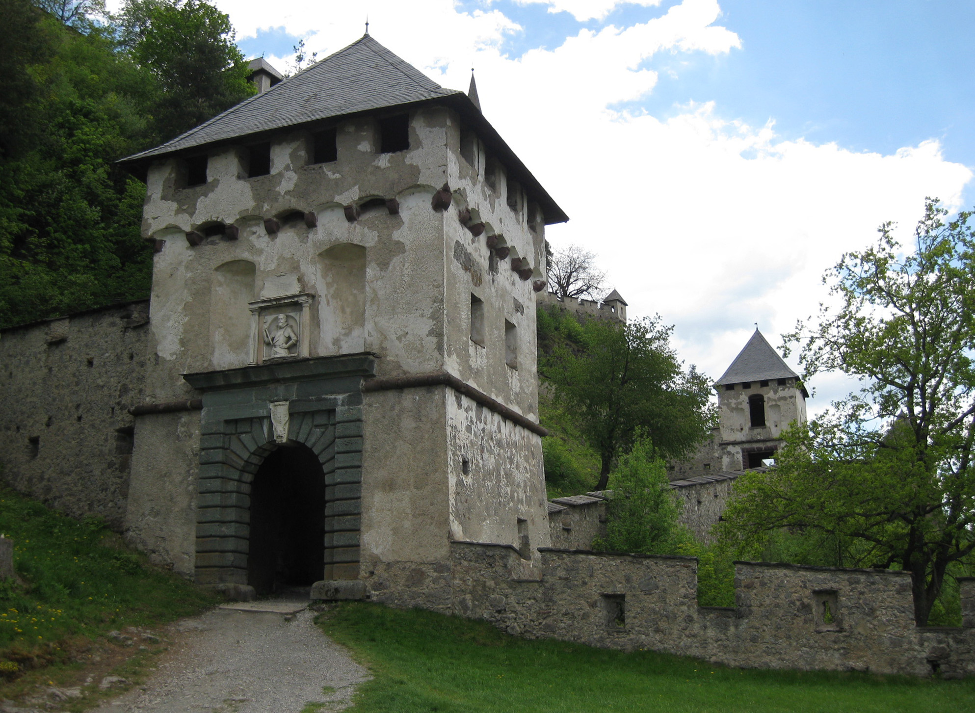 Hochosterwitz castle (slovenian: grad Ostrovica), castle in Carinthia state, Austria 7th door